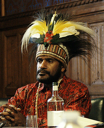 Benny Wenda at the International Parliamentarians for West Papua launch